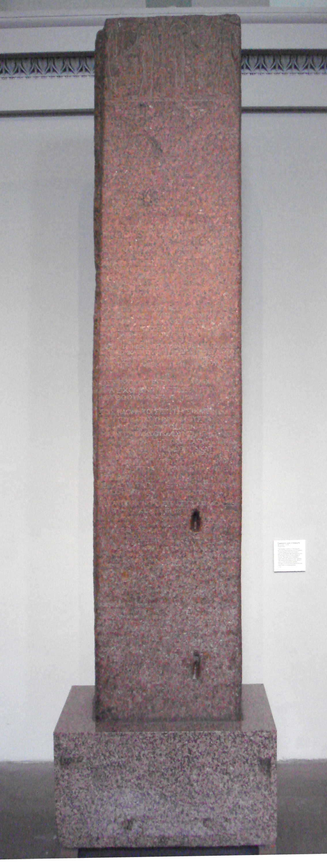 Fragment_of_a_stella_of_Ptolemy_IX_115_BCE_Aswan